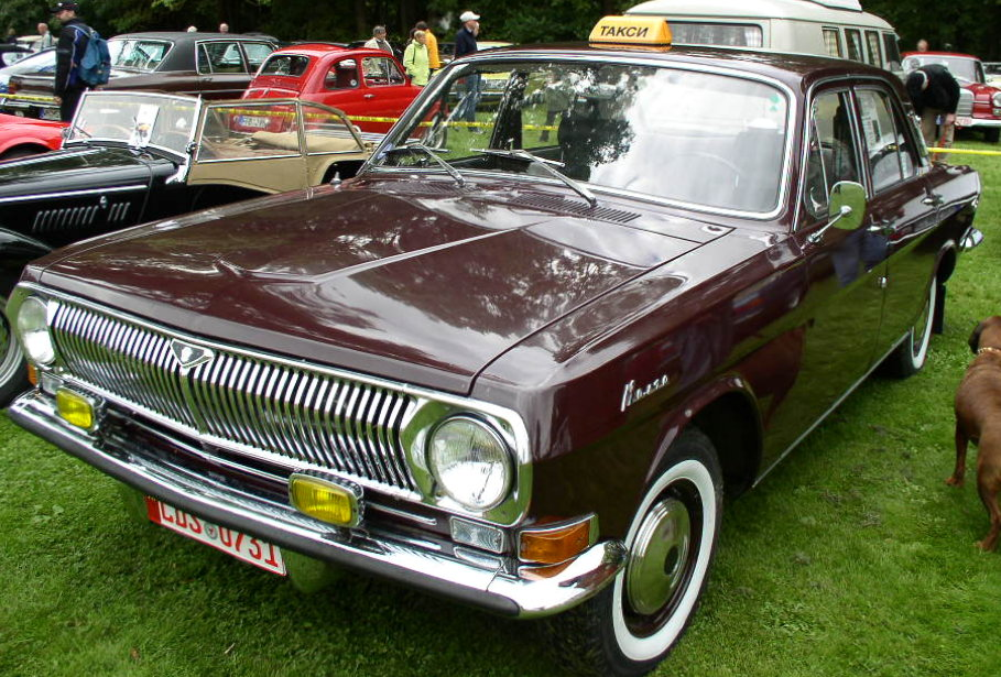 Volga GAZ 24 Taxi